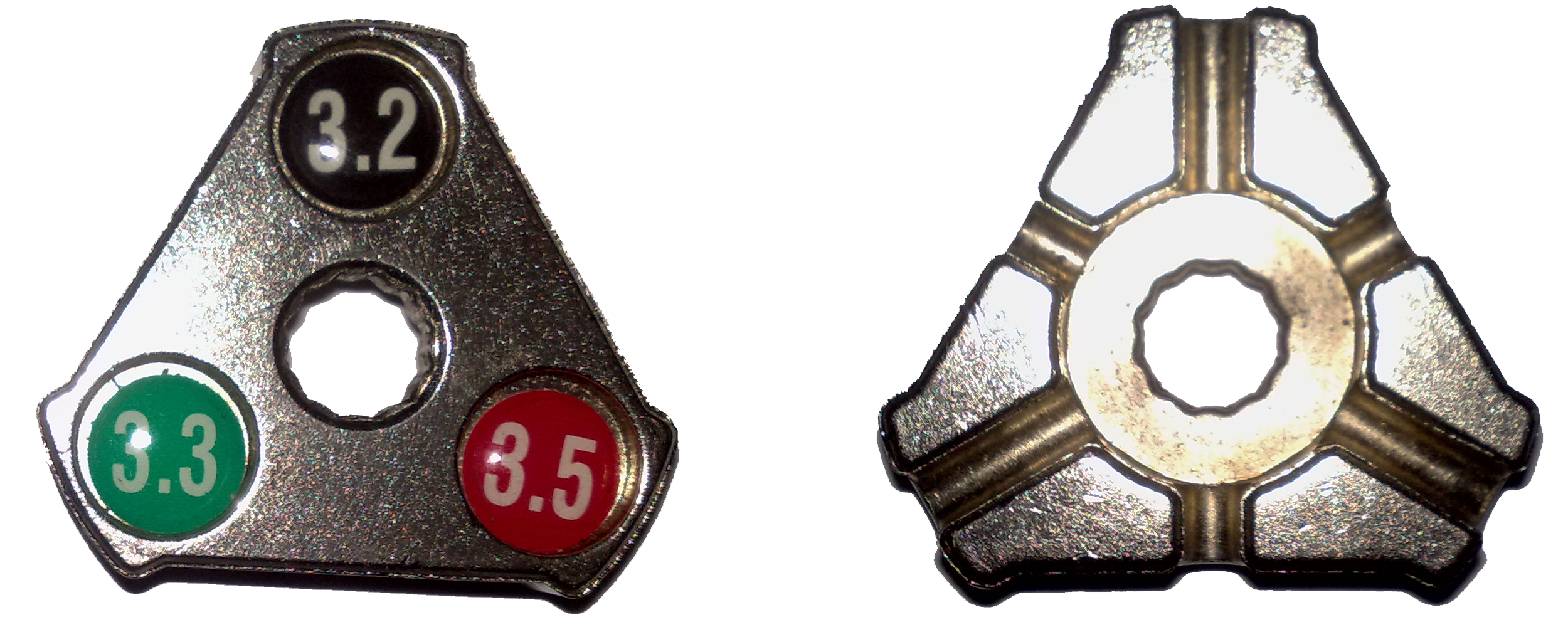 3-sizet spokes key